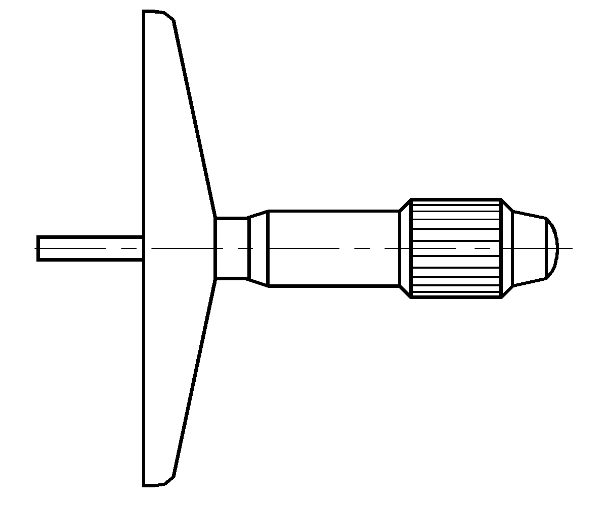 Micrometer for measuring depth